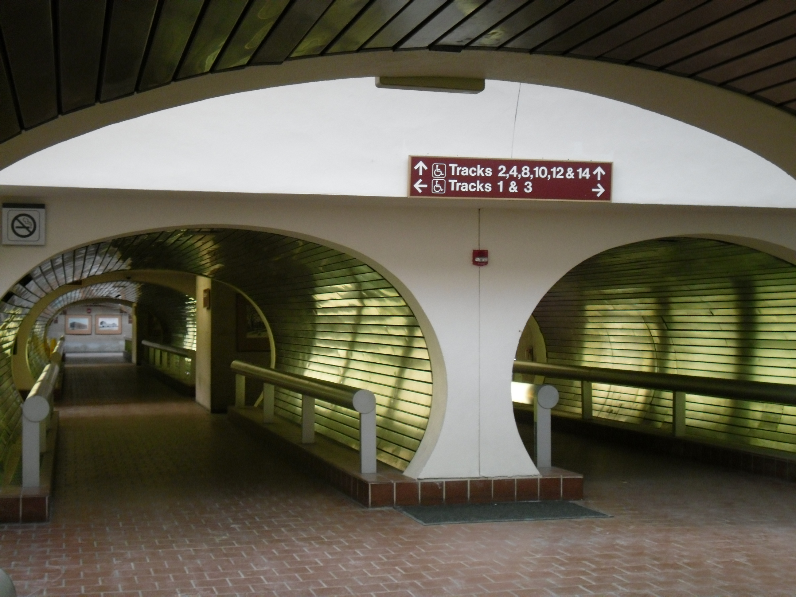 A pair of pedestrian tunnels at New Haven Union Station.